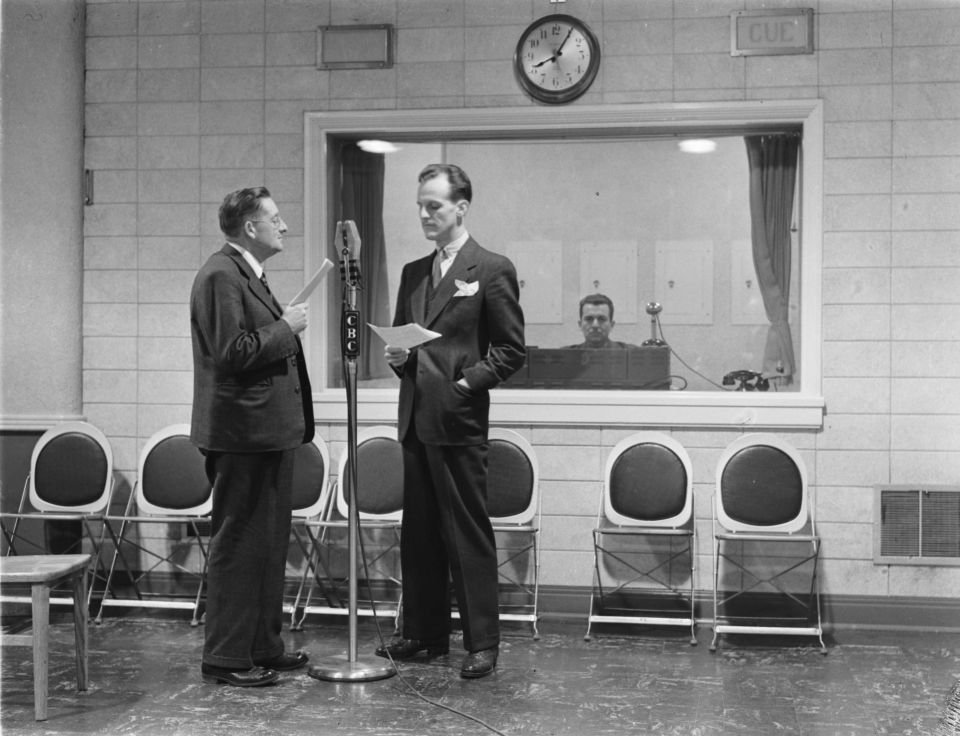 Mr. Charles Bruno standing left animating a show in the studios of CBF (CBC), located at 1231, rue Sainte-Catherine Ouest in Montreal. We see in the background, a technician at the console.